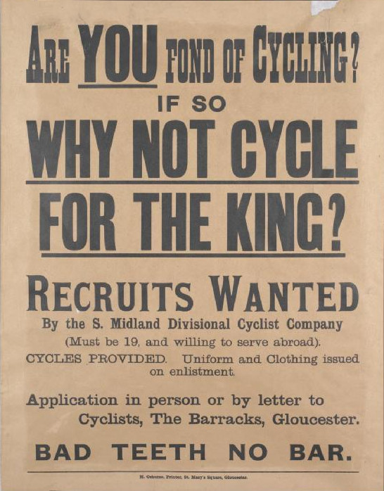 British Army recruiting poster for bicycle troops for the South Midland Divisional Cyclist Company.